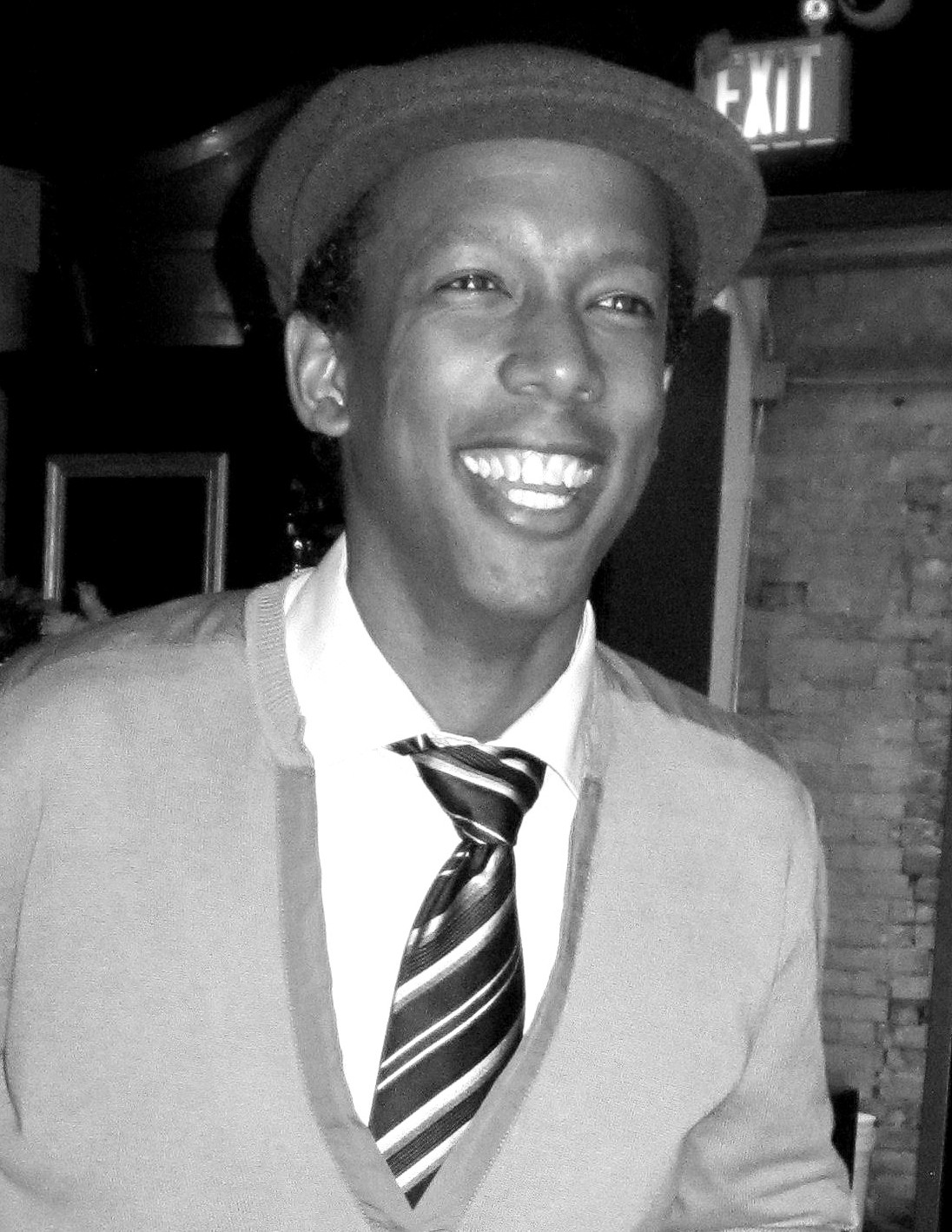 Photo of Joseph Motiki